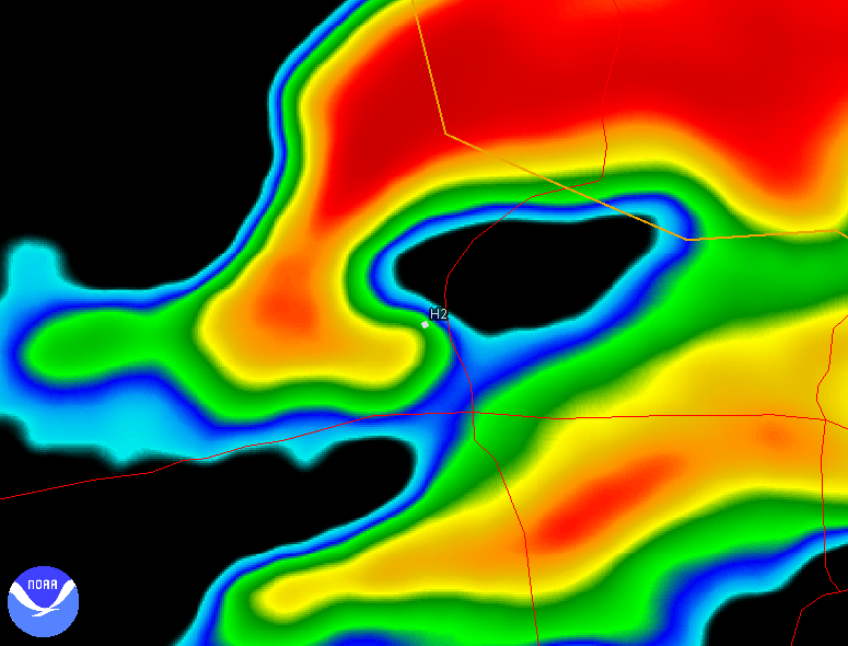 The hook echo of a tornado to the northwest of the NWS NEXRAD radar in Kansas City on 2003-05-04. The background image is the base reflectivity and "H2" is the location of the tornado. Created using NCDC JAVA NEXRAD tool.